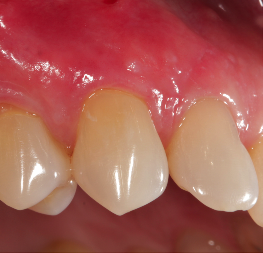 Root coverage and reestablishment of lost attachment apparatus obtain with APRF technique and maintained 2 years after.